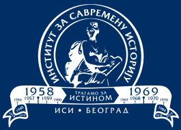 Logo of the Institute of Contemporary History.